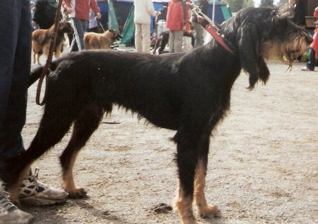 An Italian Rough-Haired Hound male.